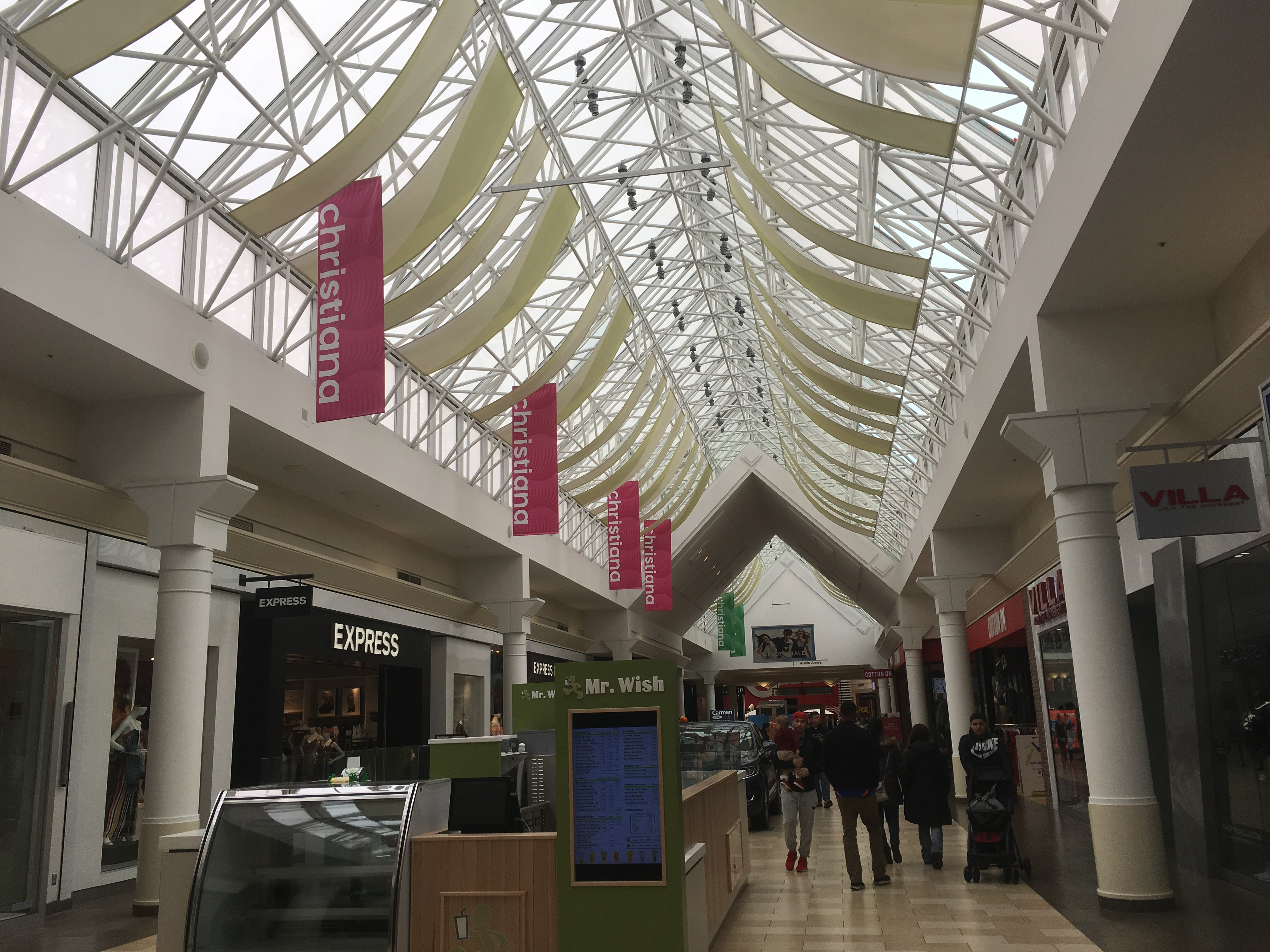 The interior of the Christiana Mall in Christiana, Delaware between Macy's and Target